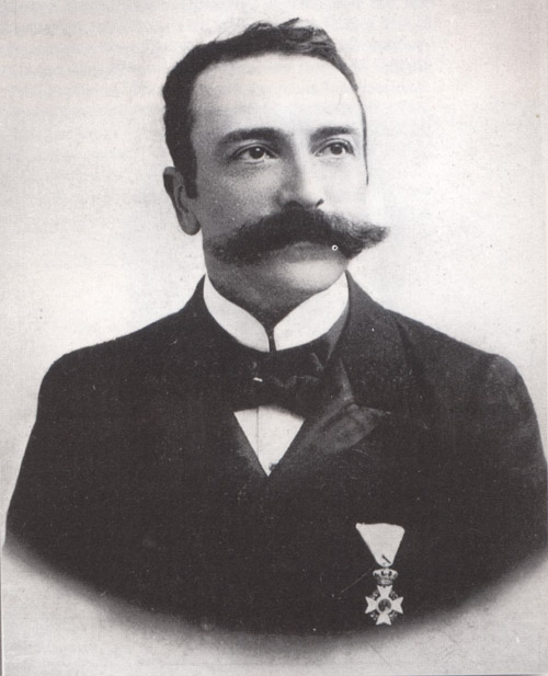 Ferenc Kemény (1860-1944), Hungarian sports manager, educator, founding member of the Int'l Olympic Committee (IOC) and the Hungarian National Olympic Commitee.